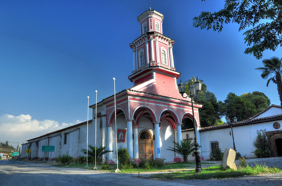 Iglesia Convento Santa Rosa de Viterbo, Curimón, Chile